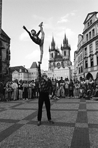 Jaroslav Kučera´s photography Personality rights warningAlthough this work is freely licensed or in the public domain, the person(s) shown may have rights that legally restrict certain re-uses unless those depicted consent to such uses. In these cases, a model release or other evidence of consent could protect you from infringement claims.